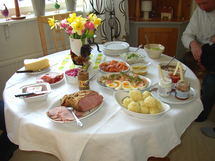 Dinner at my neighbours place, this is the "appetizer-table" (as always in a Swedish Smörgåsbord...or buffe´) and was followed by all the warm dishes as jansson, meatballs, sausages etc. Im just crazy about this kind of food and I just wish my stomac was bigger! :))